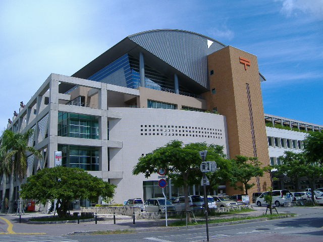 Naha Central Post Office (Okinawa Postal Resource Center, Okinawa Regional Customs Naha Overseas Mail Sub-Branch Customs)